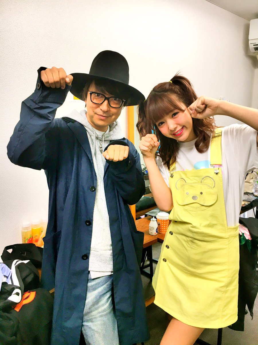 プロデューサー・平藤真治